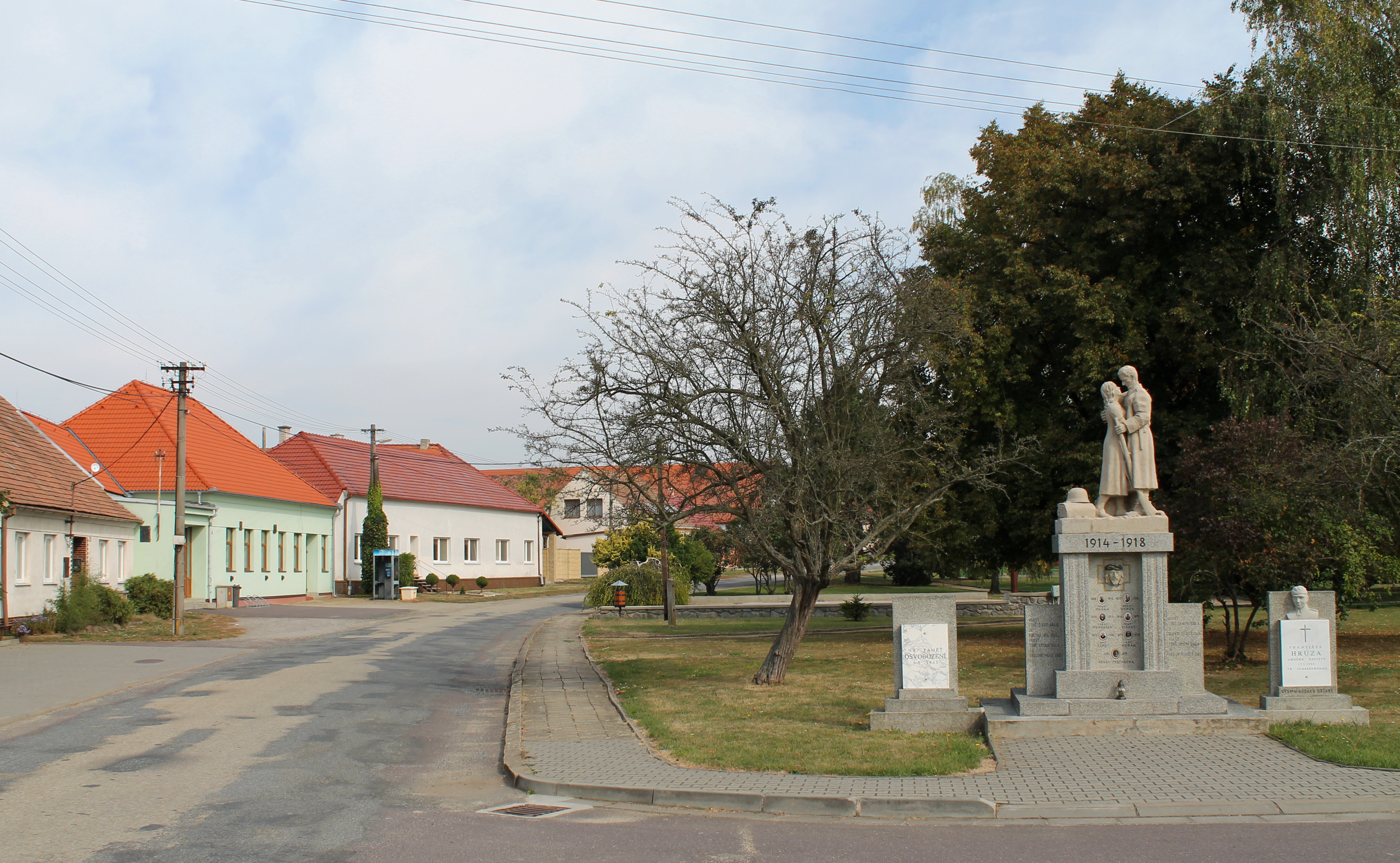 Medlice, Znojmo District, Czech Republic This photograph was taken during a group photography field trip by Brno Wikipedians: 2016-09-28.